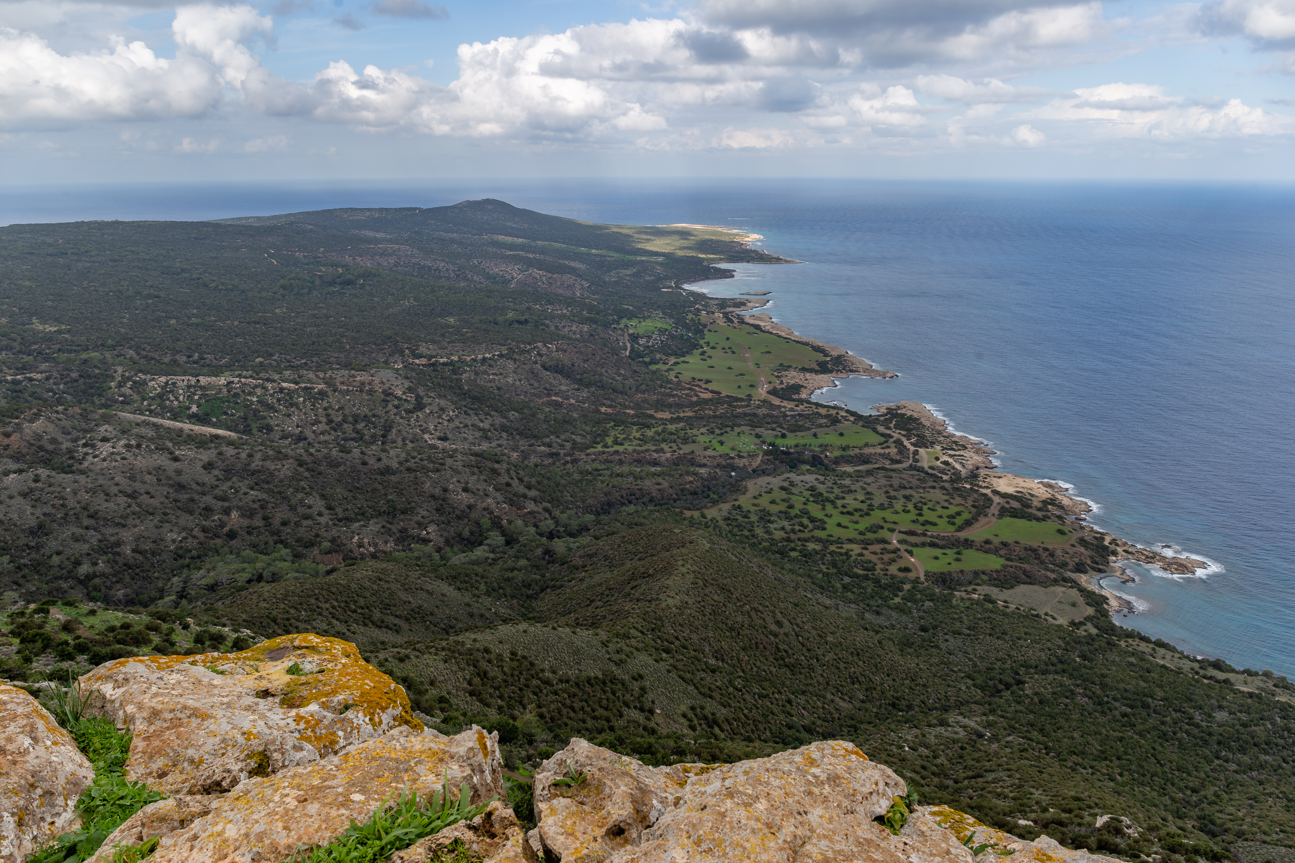 View from Moutti Tis Sotiras, Akamas Paninsula, Cyprus